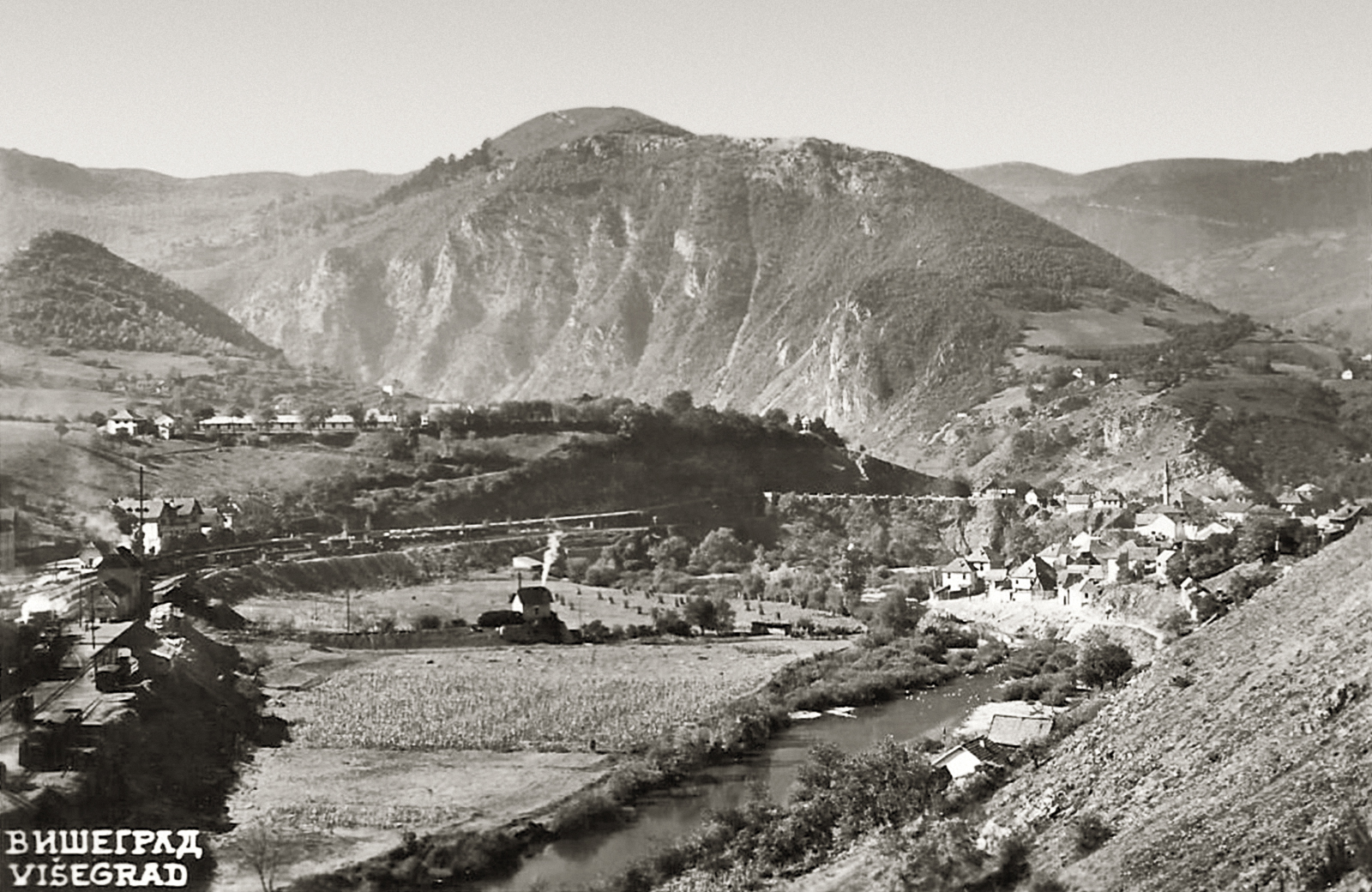 Narrow-gauge railway station Višegrad as seen in this downstream view of the Rzav River